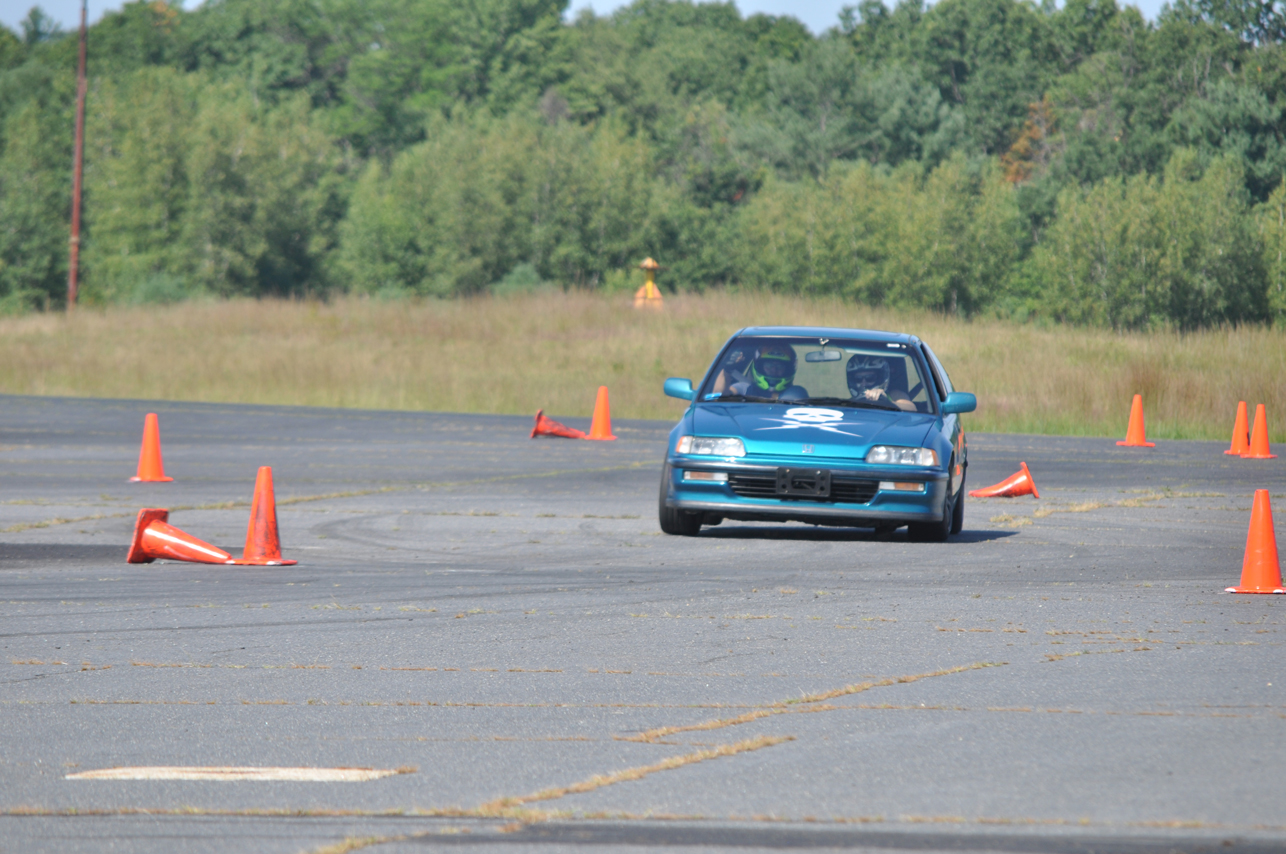 Autocross events are held by many local car clubs across the USA. Events are typical open to novices with no experience at autocross. Drivers must navigate a series of "turns" defined by traffic cones.